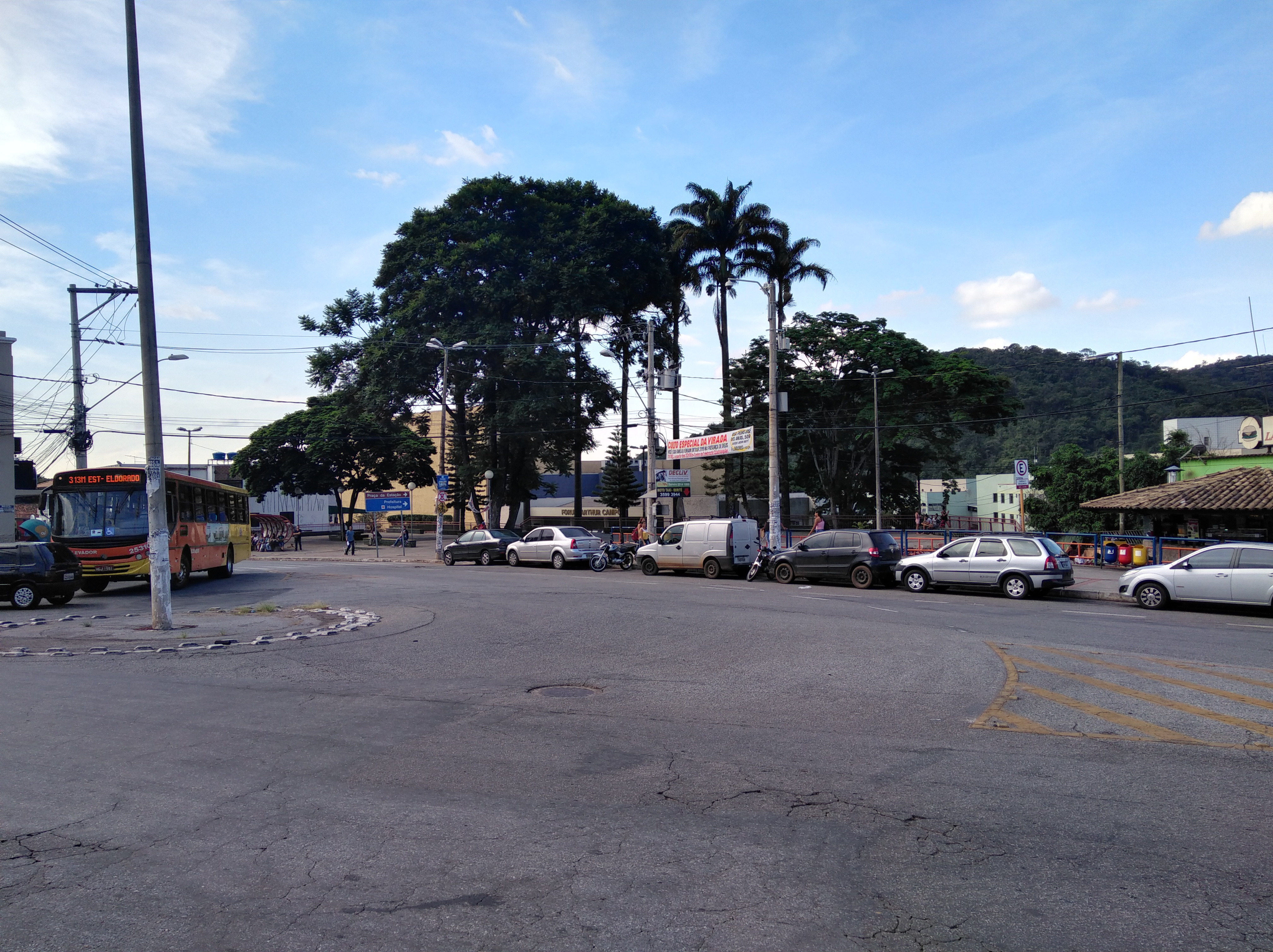 Downtown and Forum square - Ibirité, MG